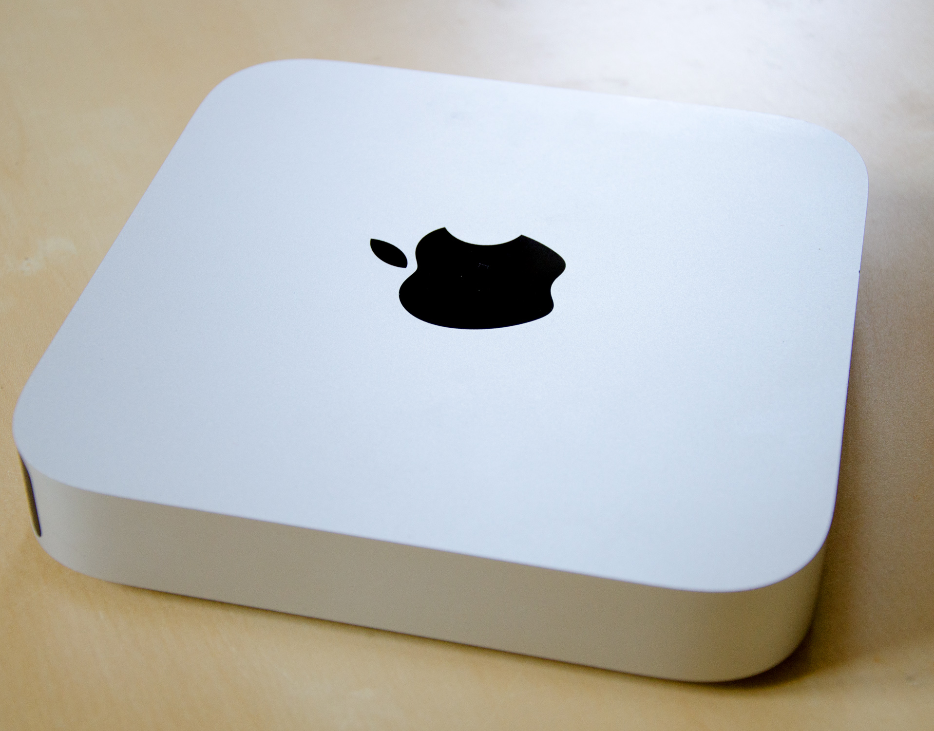 Apple Mac Mini